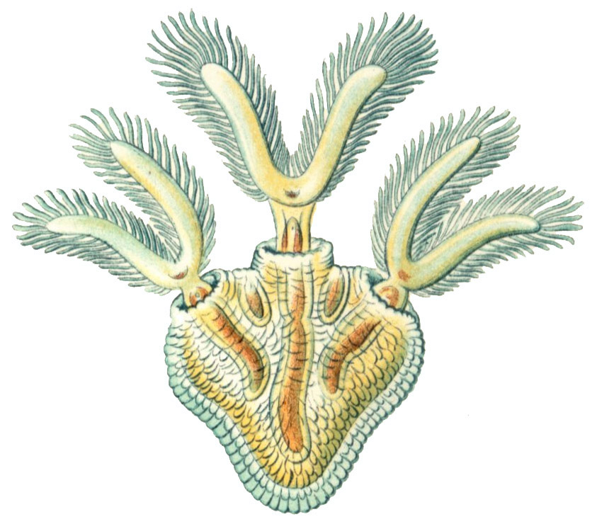 Very young specimen of Cristatella Mucedo) ; from Haeckel (1904)